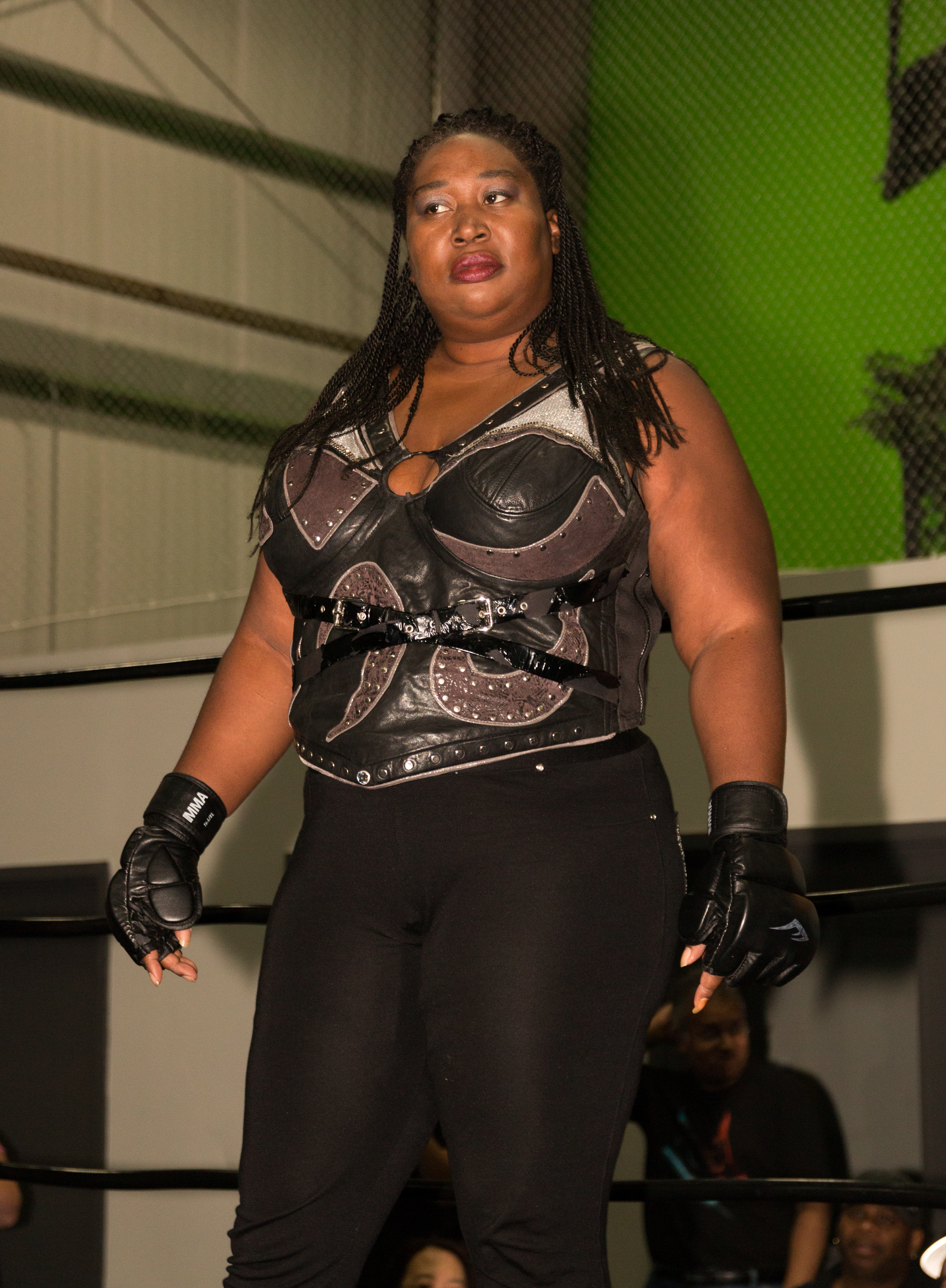 Professional wrestler Amazing Kong in the ring at Smash Wrestling's Canusa 2014 show